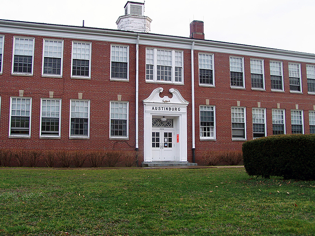 This is a photograph of Austinburg Elementary School in Austinburg Township, Ohio. The photograph was taken on March 31, 2006. I release all rights to this photograph.